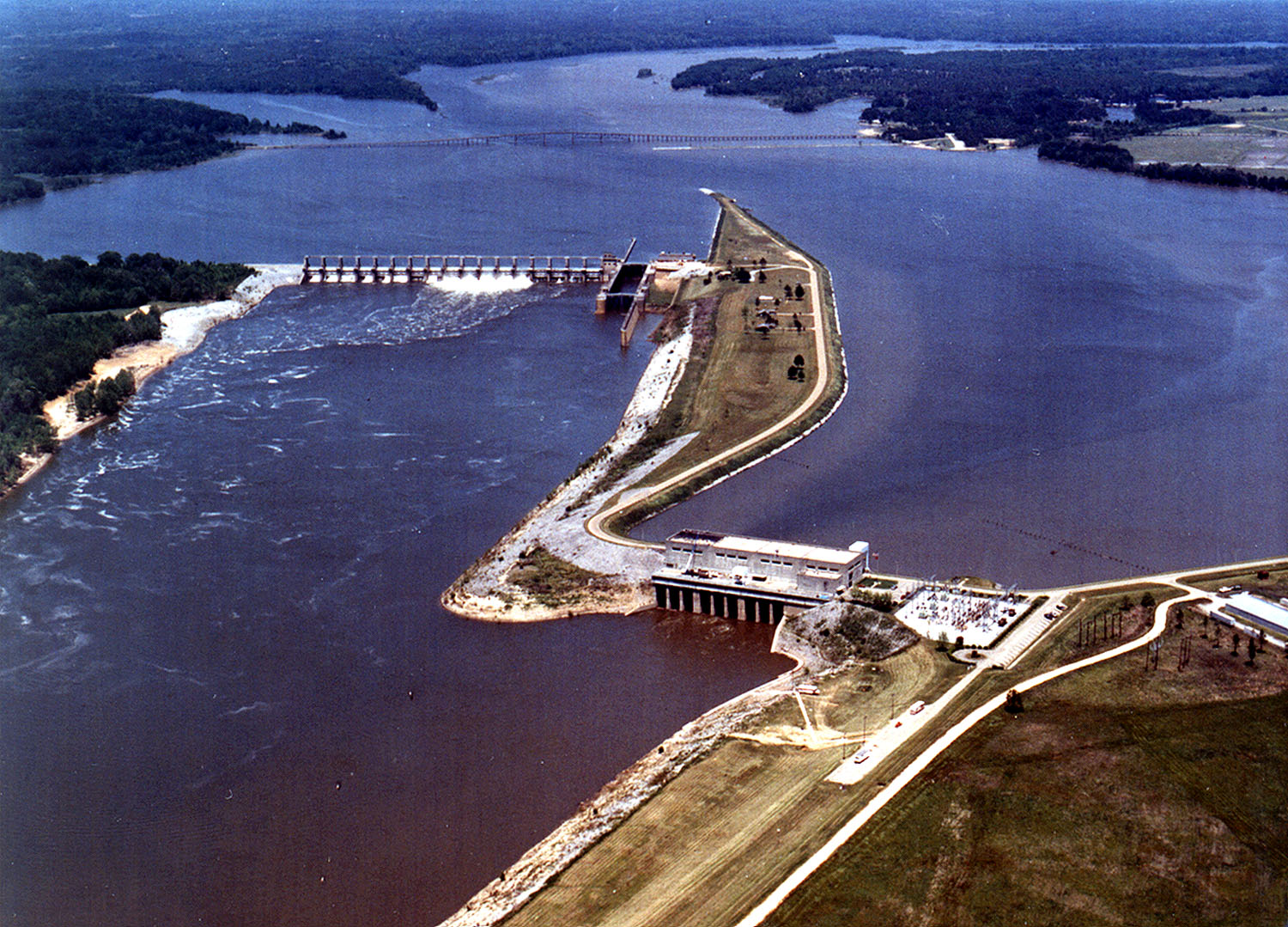 Aerial view of Millers Ferry Lock and Dam on the Alabama River in Wilcox County, Alabama, USA. The lock and dam are located approximately 9.5 miles (15 km) northwest of Camden, Alabama. The dam impounds William “Bill” Dannelly Reservoir on the Alabama River, which backs up 105 miles (168 km) to the Robert F. Henry Lock and Dam upriver. The lock and dam were completed by the U.S. Army Corps of Engineers in 1970 for flood control, river navigation, and hydroelectric power generation. View is upriver to the north. Coordinates: 32°5′45.44″N 87°24′1.45″W / 32.0959556°N 87.4004028°W